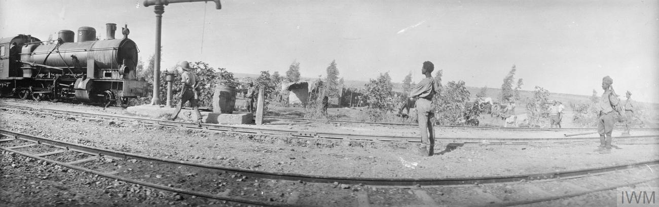 Photograph of first British train arriving at Beisan 25 September 1918. Train and engine captured at El Afule by 12th Brigade, 4th Cavalry Division on 20th September.